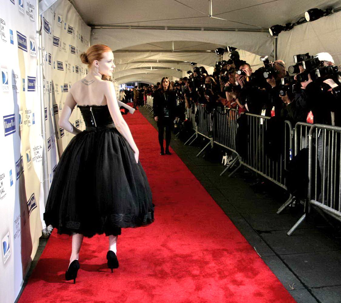 Evan Rachel Wood at the "Whatever Works" Premiere, Tribeca Film Festival 2009